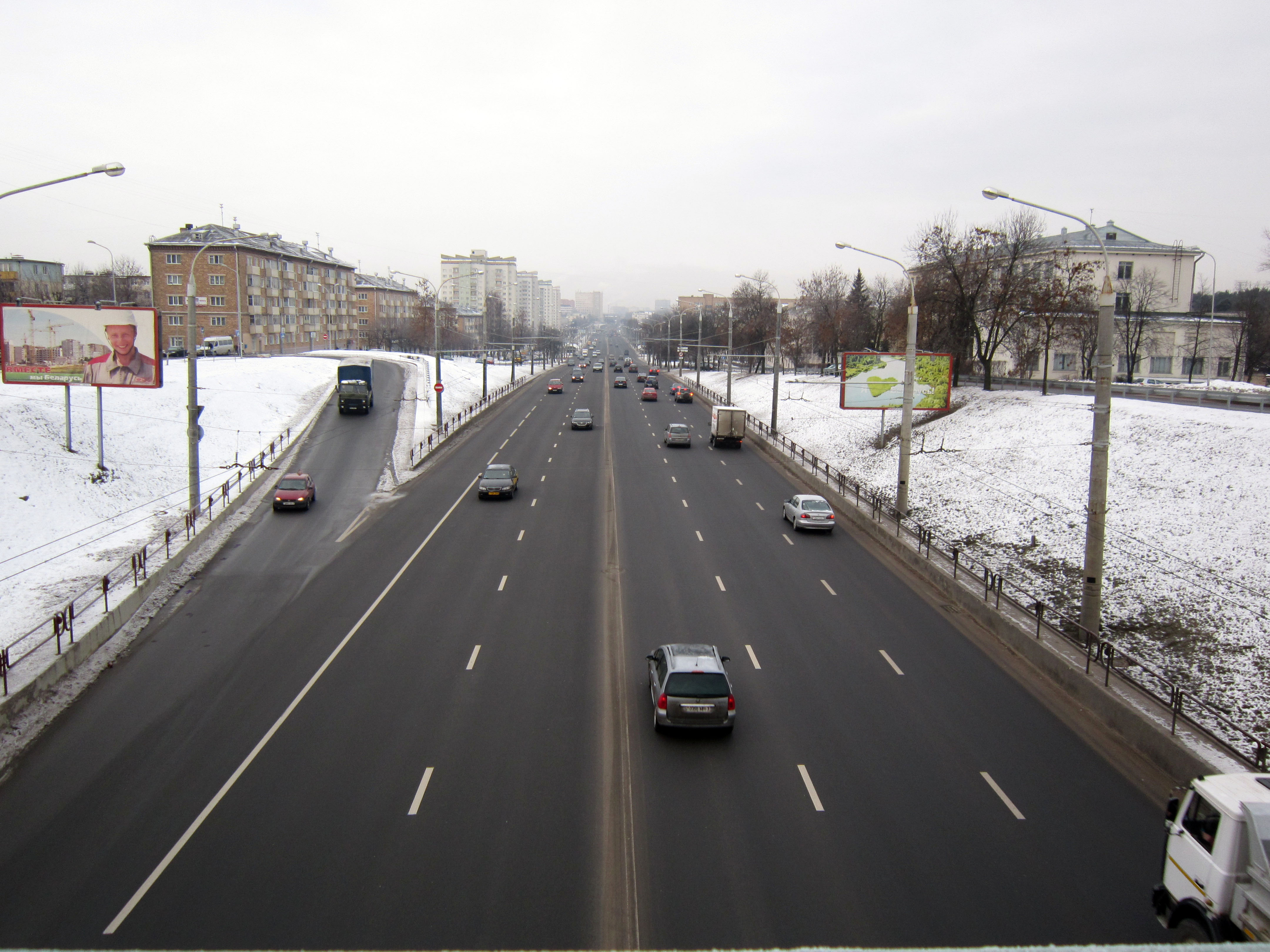 Partyzanski praspekt in Minsk.